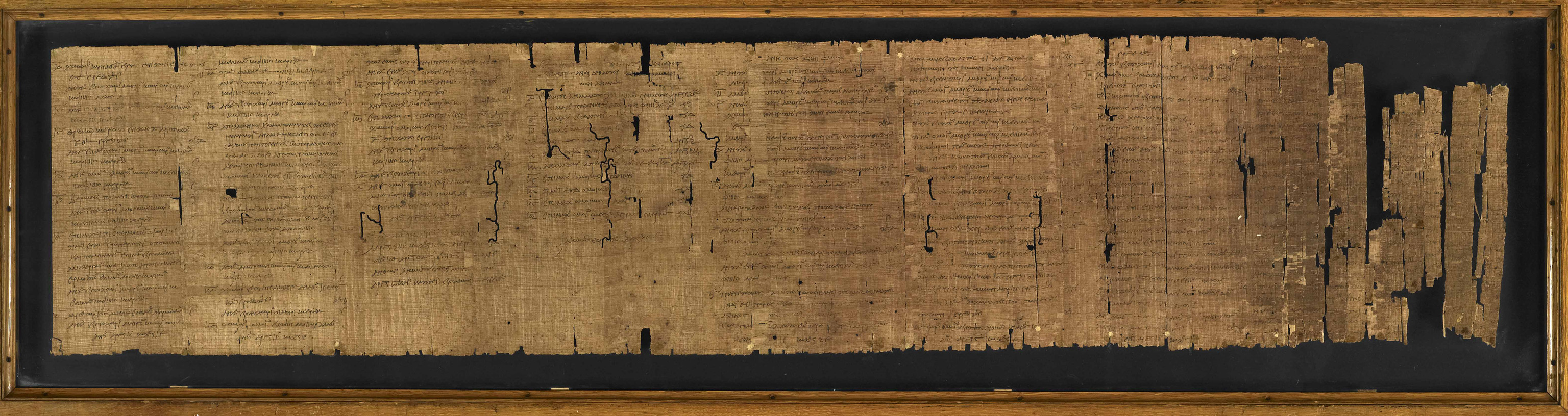 The Aristotelian Constitution of Athens (Ἀθηναίων Πολιτεία). 30 columns. Written c. 100 AD, this is the only extant copy of the nearly complete text. Held and digitised by the British Library. Copied from Flickr.